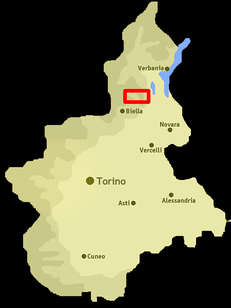 Val Sessera position within Piedmont (NW Italy)